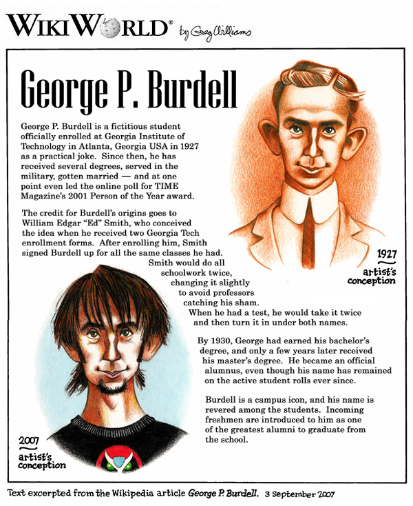 WikiWorld comic based on the article "George P. Burdell"